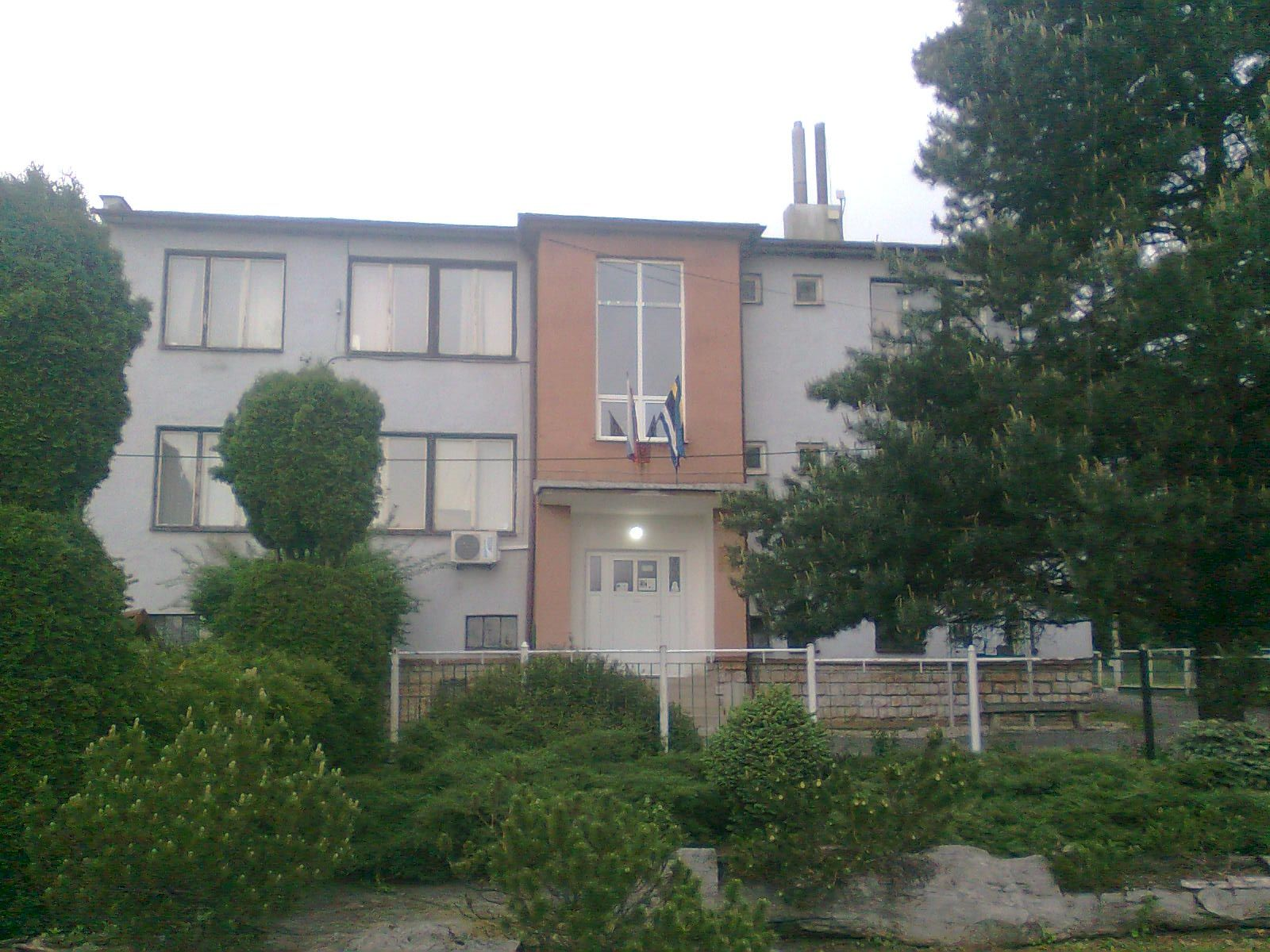 Slovakia vilage Slavošovce municipal ofice